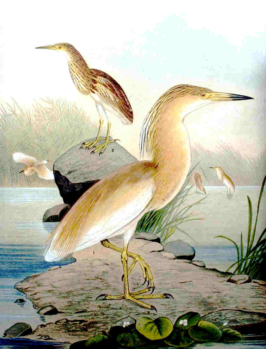 Ardeola ralloides